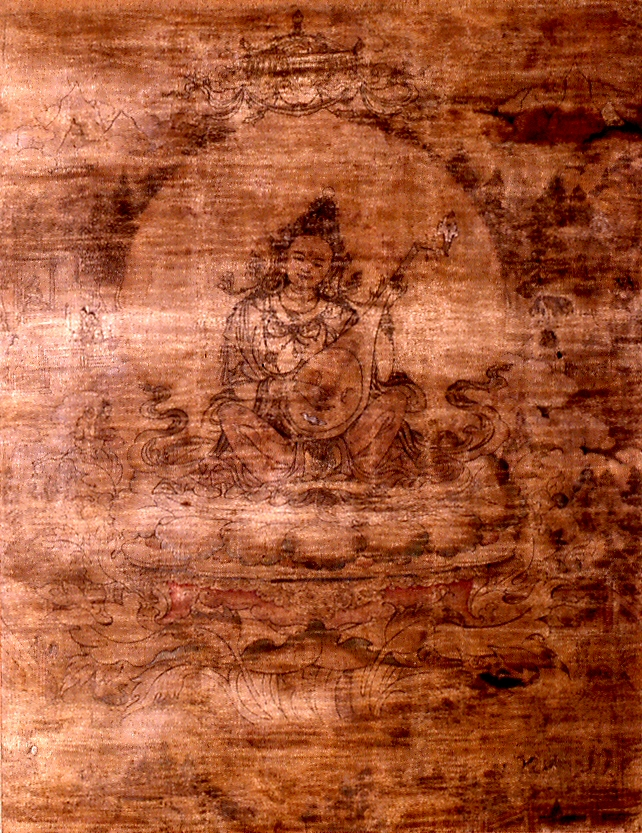 Sarasvati is a Hindu goddess, adopted as a goddess of learning and the performing arts by Buddhists. Here, she sits on a lotus rising from the water and plays a central Asian lute-not a "vina," as would be the case in India.